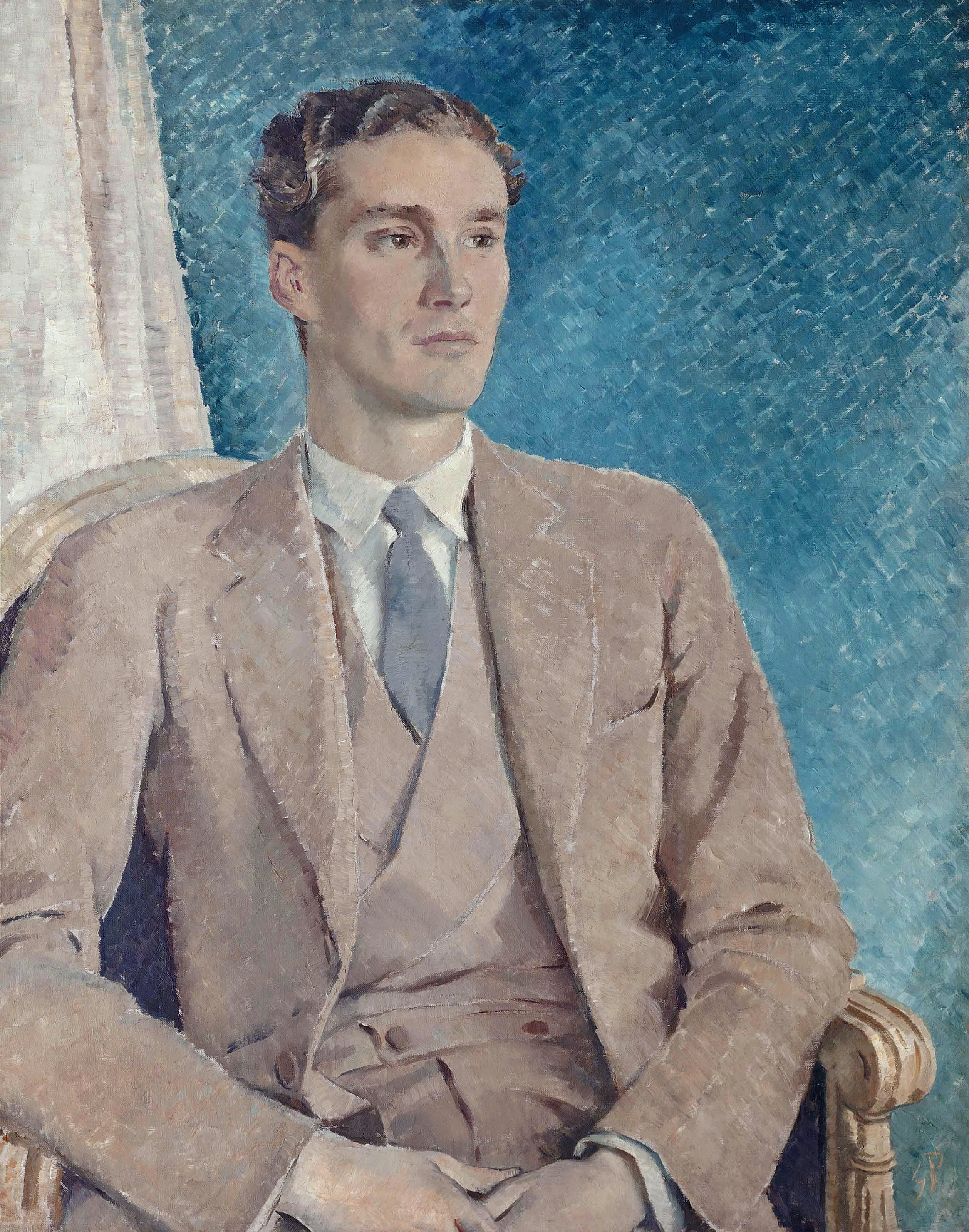 Patrick Buchan-Hepburn, Lord Hailes oil on canvas 92.1 x 73 cm signed b.r.: GP 1934